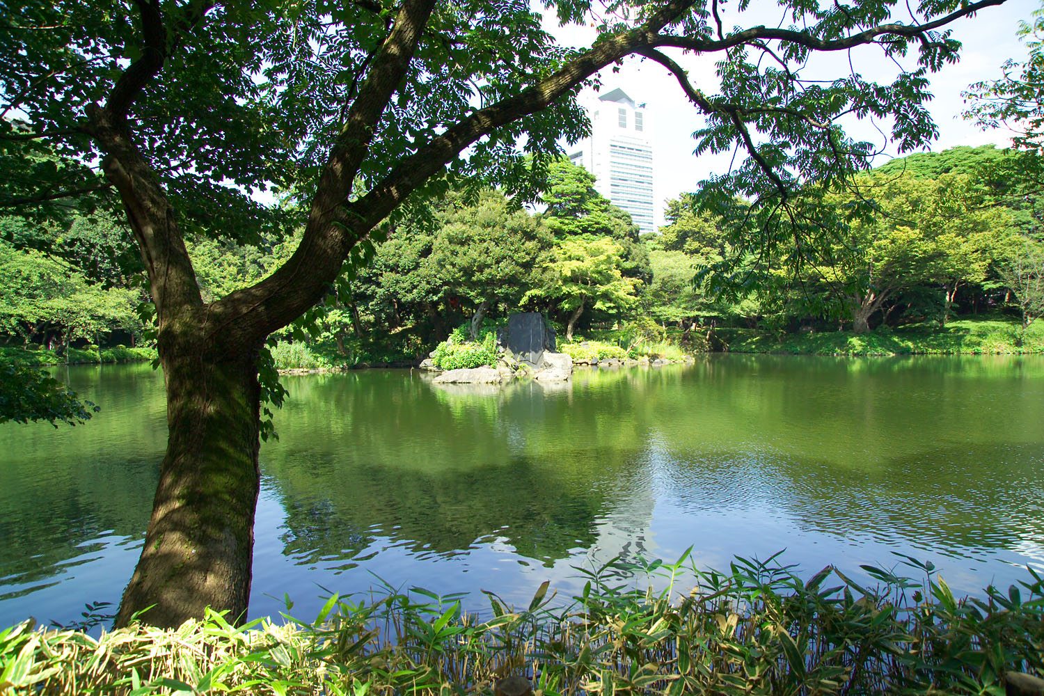 Koishikawa Korakuen is a Japanese garden in Tokyo, Japan. The Mito Tokugawa family established the garden near their residence, close to the castle. Now, Korakuen is an oasis of greenery amid the bustle of downtown Tokyo, adjacent to Tokyo Dome and the Korakuen amusement park. I took this photo and contribute my rights in the file to the public domain; individuals and organizations retain rights to images in it.